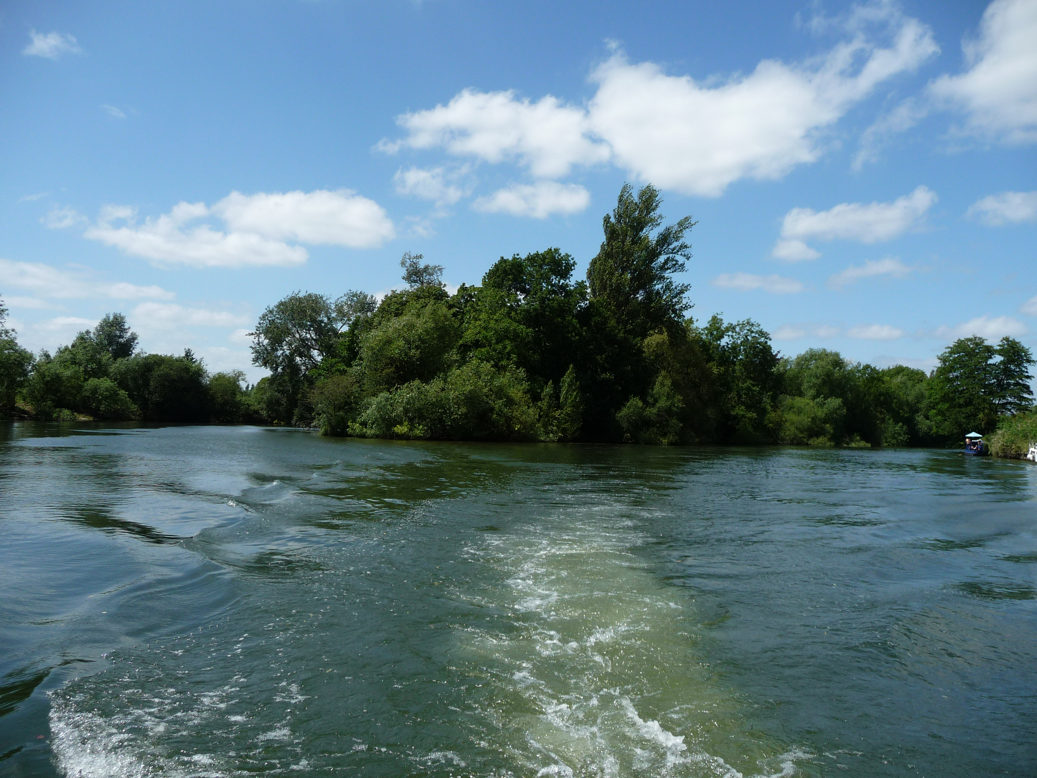 Queen's Eyot on the River Thames from the downstream side.